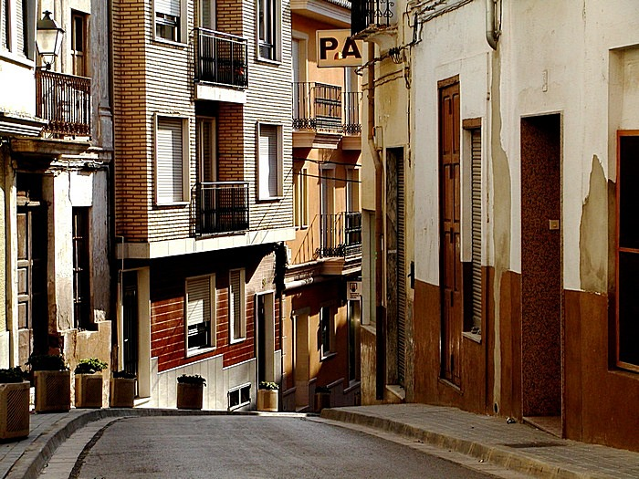 Street in town of Cheste, Spain